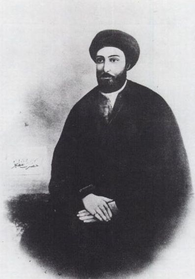 Published in: Mehrabkhani, Ruhu'llah (1987) Mulla Husayn: Disciple at Dawn, Kalimát Press In a letter from the Research Department of the Bahá'í World Centre dated 21 November 2010, it is stated that "concerning the portraits of Shaykh Ahmad-i-Ahsá’í and Siyyid Kázim-i-Rashtí published in Mullá Husayn: Disciple at Dawn by Ruhu’llah Mehrabkhani", the Research Department "does not have any information about the creator or creators of the portraits in question, or where and when they were drawn. Furthermore, no conclusive evidence has yet been found to support the view that the portrait that is reported to be of Siyyid Kázim-i-Rashtí is indeed of him".